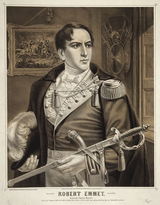 Irish nationalist Robert Emmet (1778-1803). "Robert Emmet, Ireland's patriot martyr. When my country takes her place among the nations of the earth then and not till then let my epitaph be written."